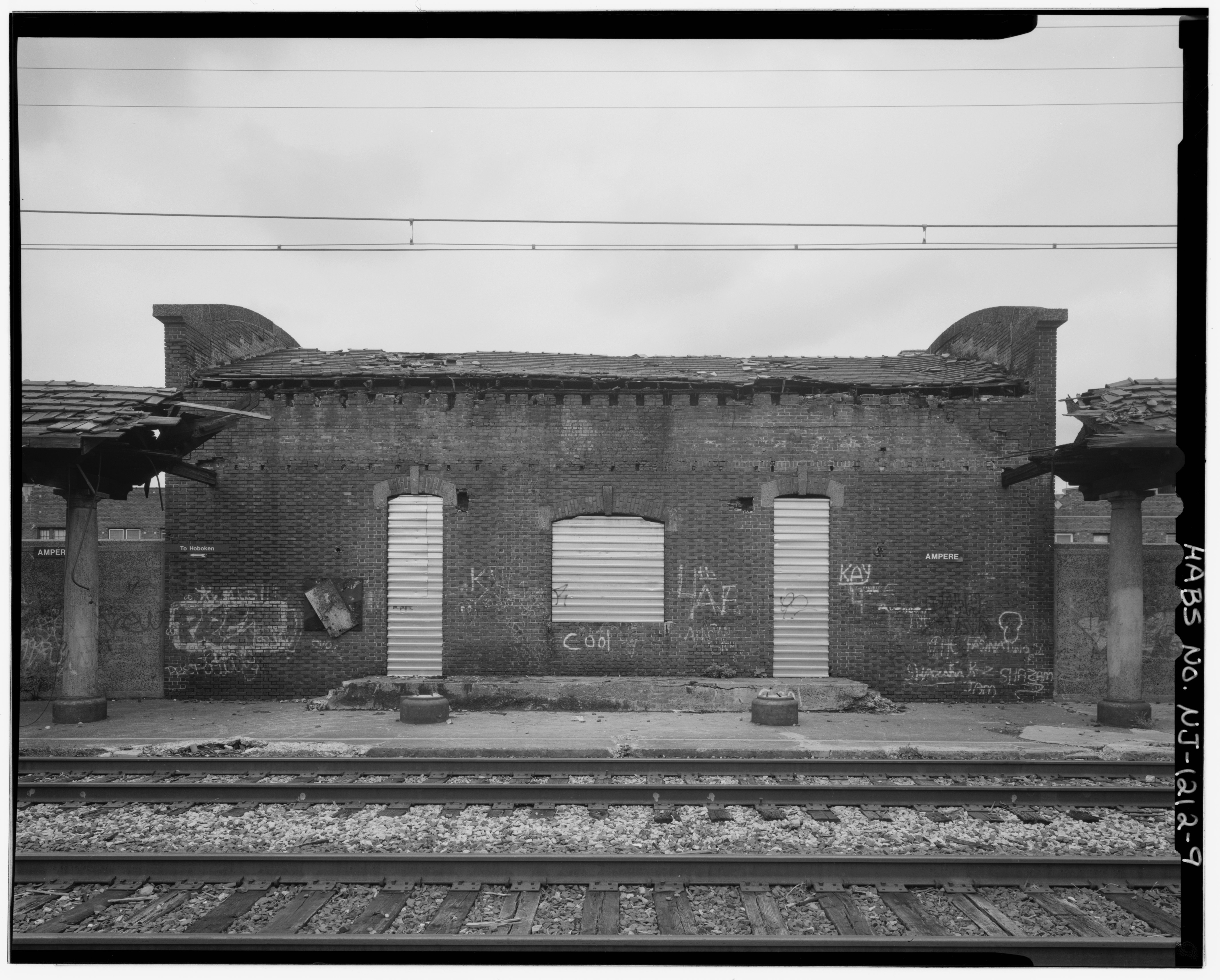 A view of the deteriorating station depot from platform level at Ampere New Jersey Transit station in East Orange, New Jersey.